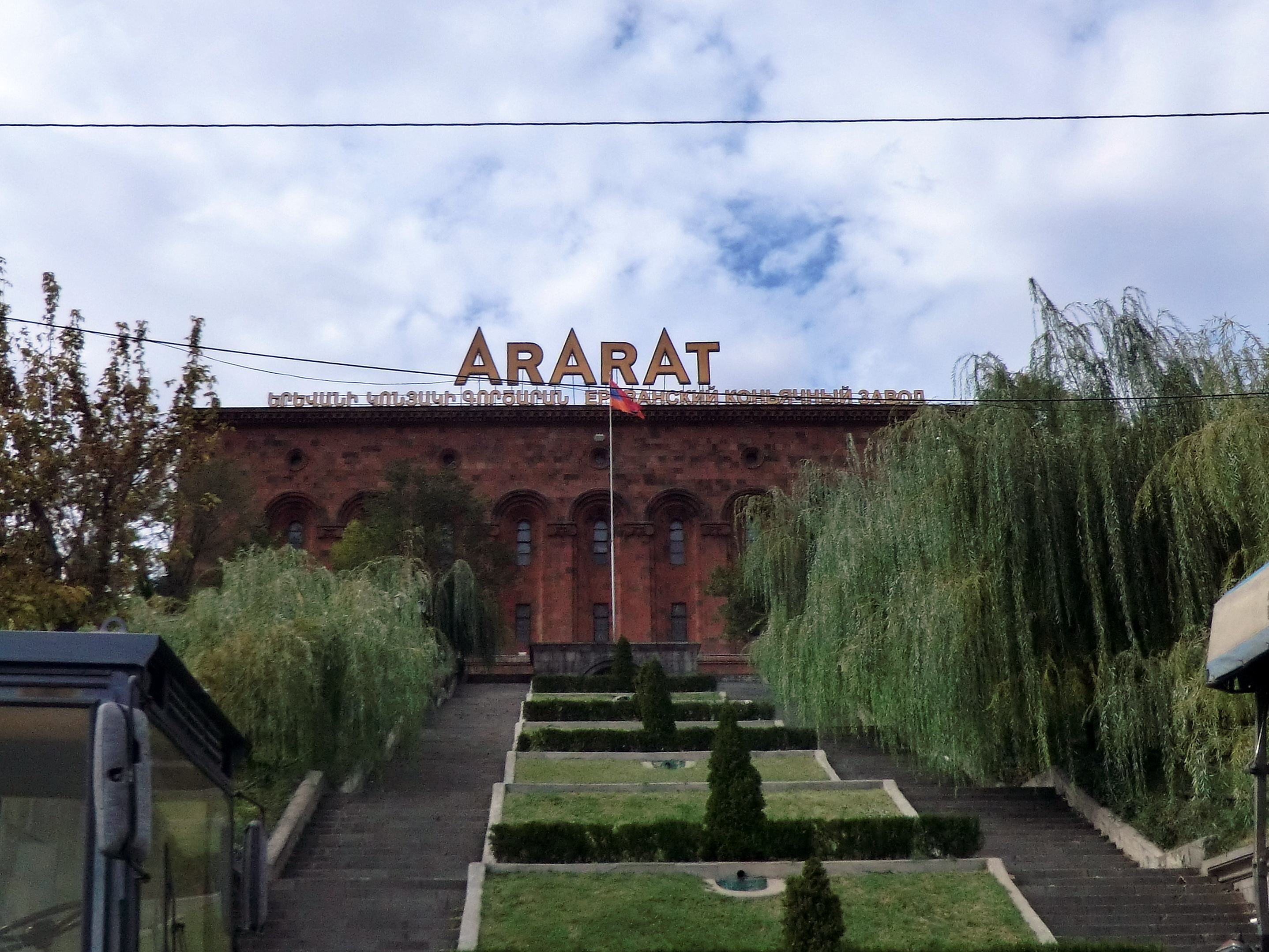 Yerevan Brandy Company.